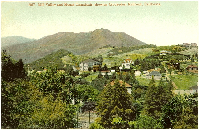 Postcard showing view of Mill Valley showing Mount Tamalpais, about 1910. Store Web page states: "Original, circa 1910 postcard. Caption reads 'MIll Valley and Mount Tamalpais Showing Crookedest Railroad, Calif'."